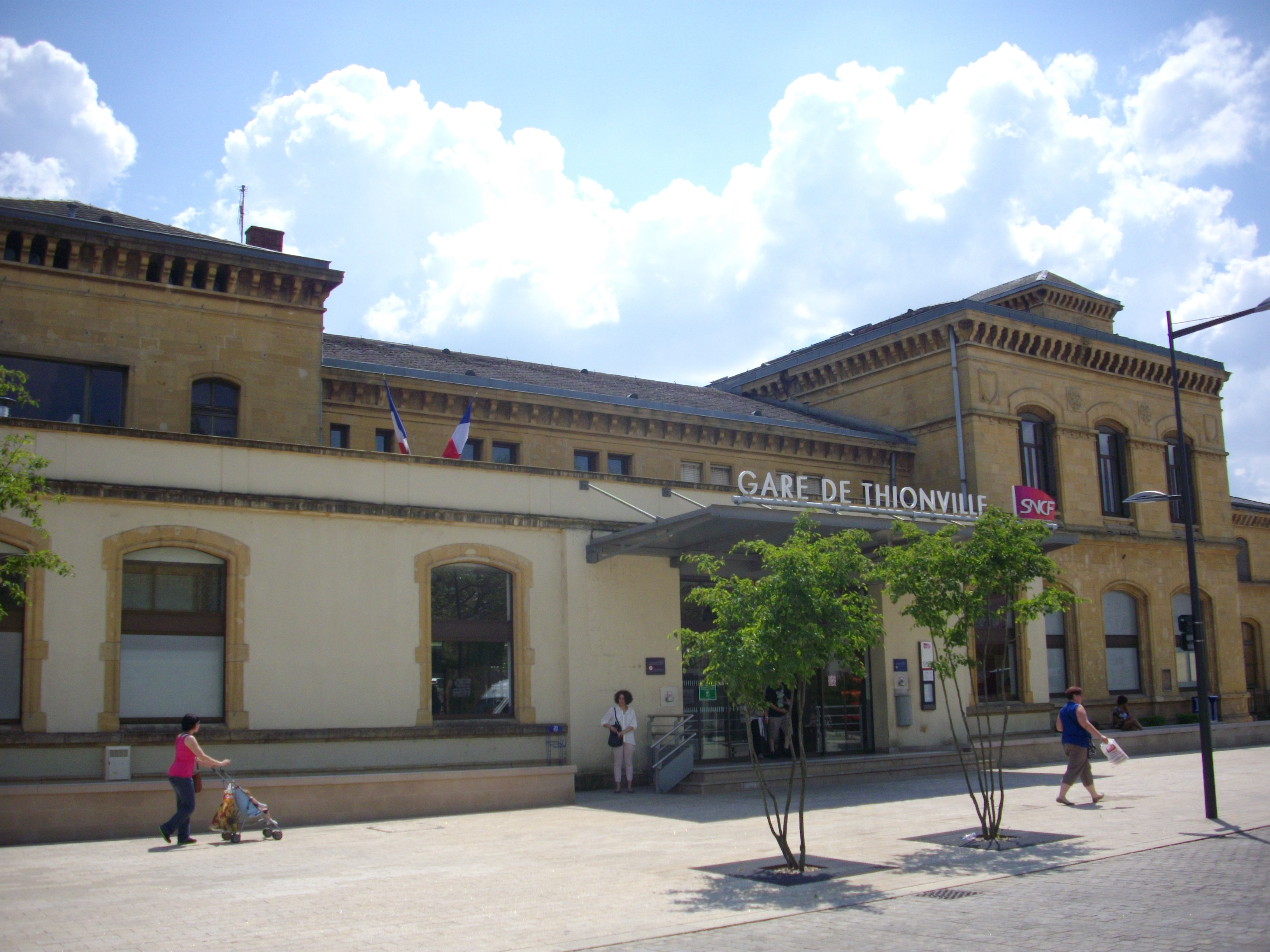 Train station of Thionville (Moselle, France)